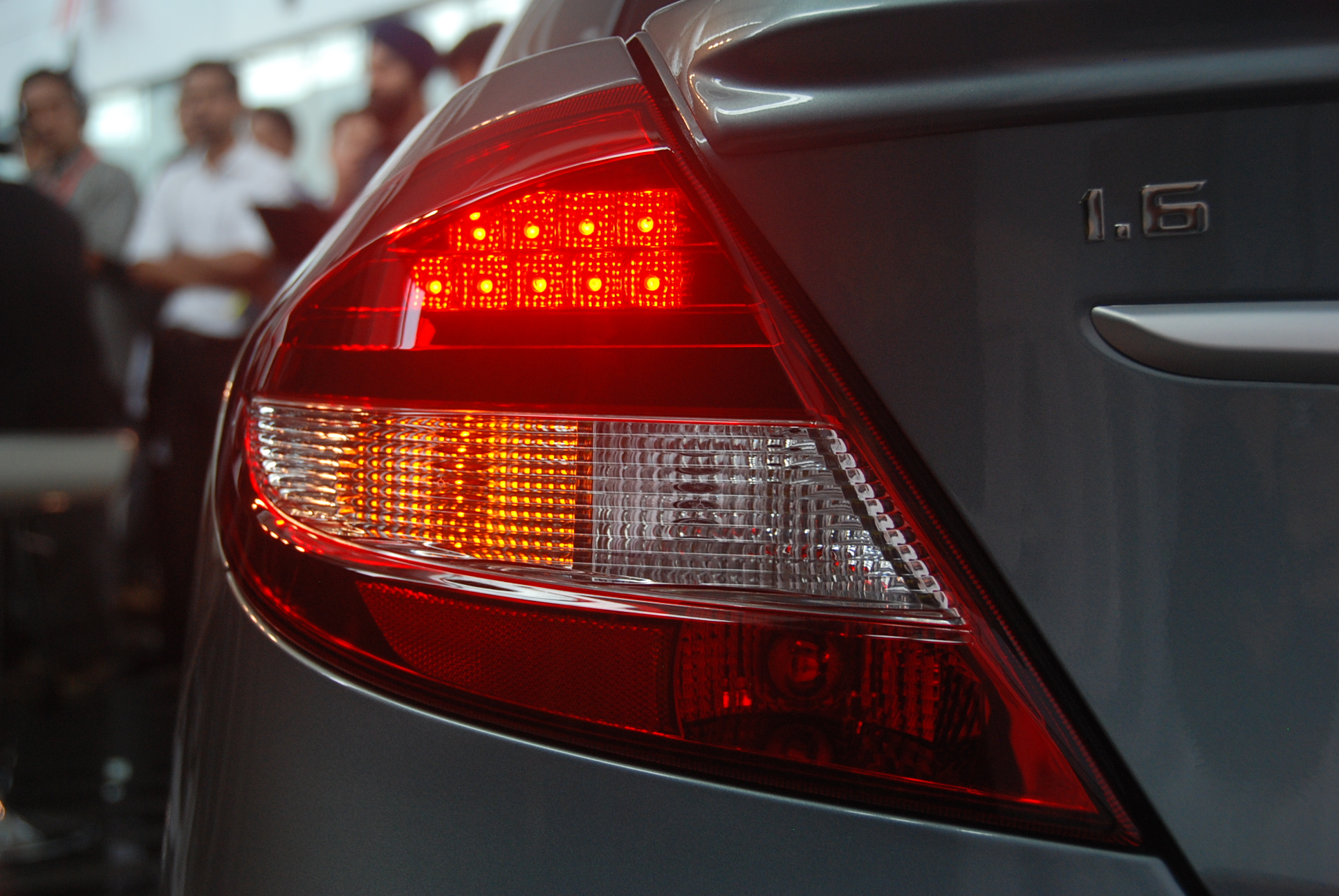 Proton Persona Elegance LED tail lamp. First used at